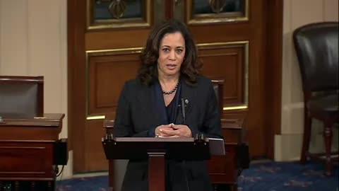 Kamala Harris 2017-02-08